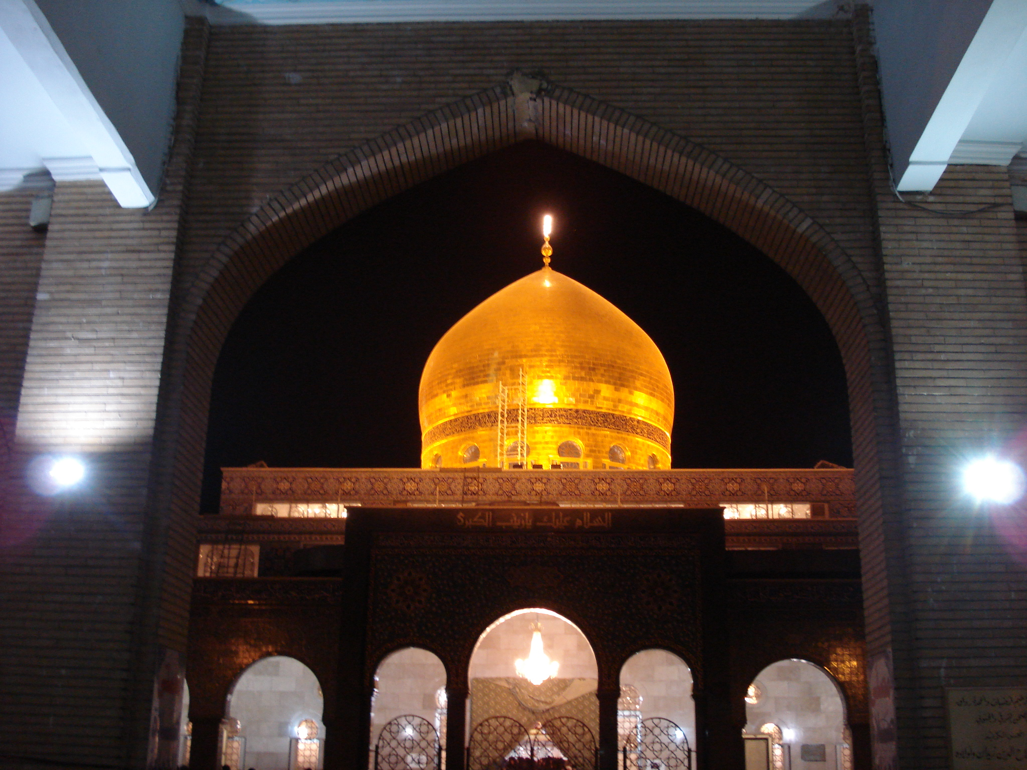 Sit Zaynab shrine southern Damascus